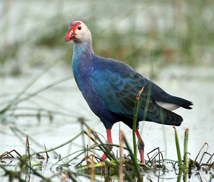 Purple Swamphen (Porphyrio porphyrio) at/ near Hodal in Faridabad District of Haryana, India.